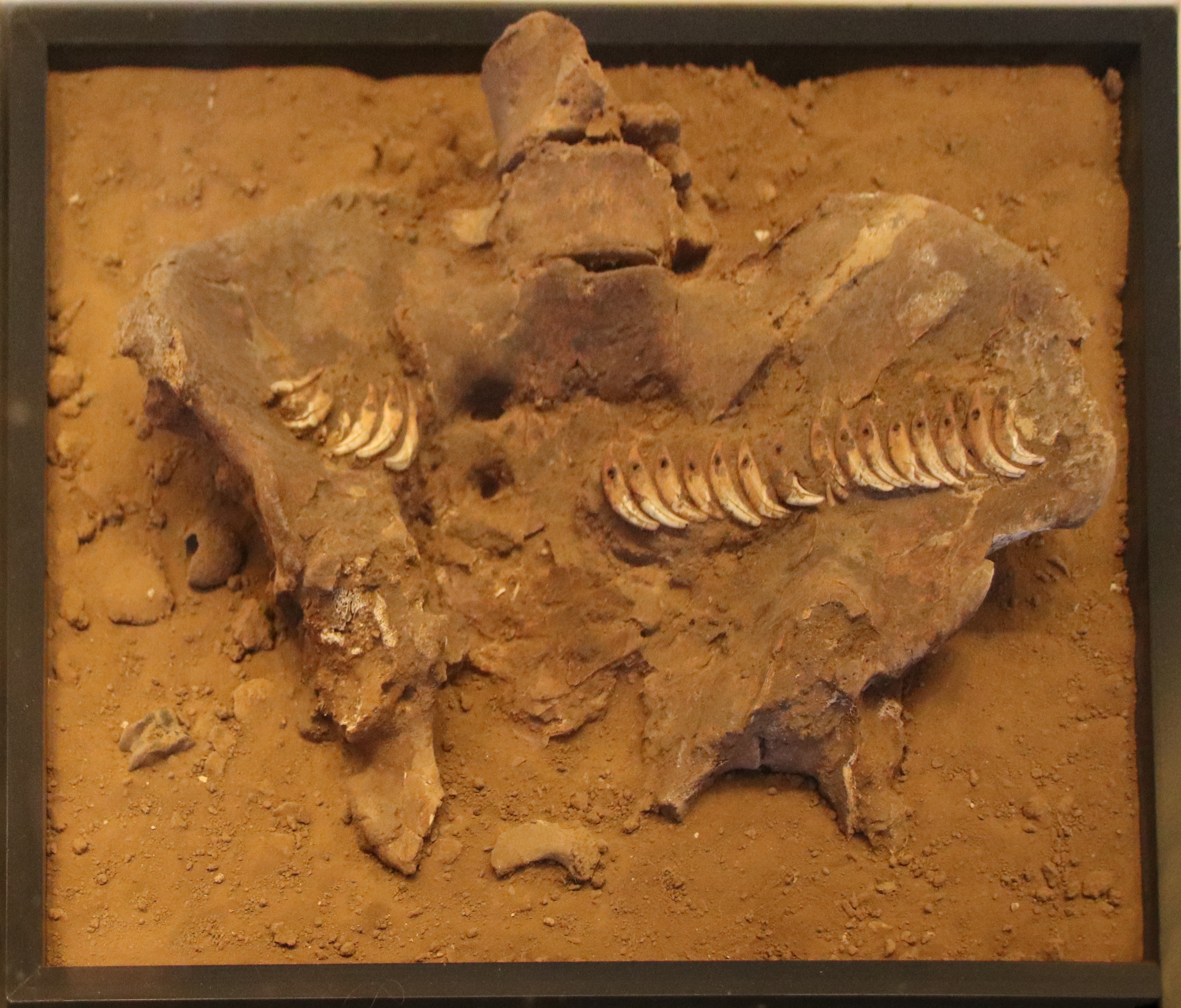 Woman's Pelvis Decorated with Fox Teeth, Natufian Culture Israel Museum, Jerusalem, Israel. Complete indexed photo collection at .